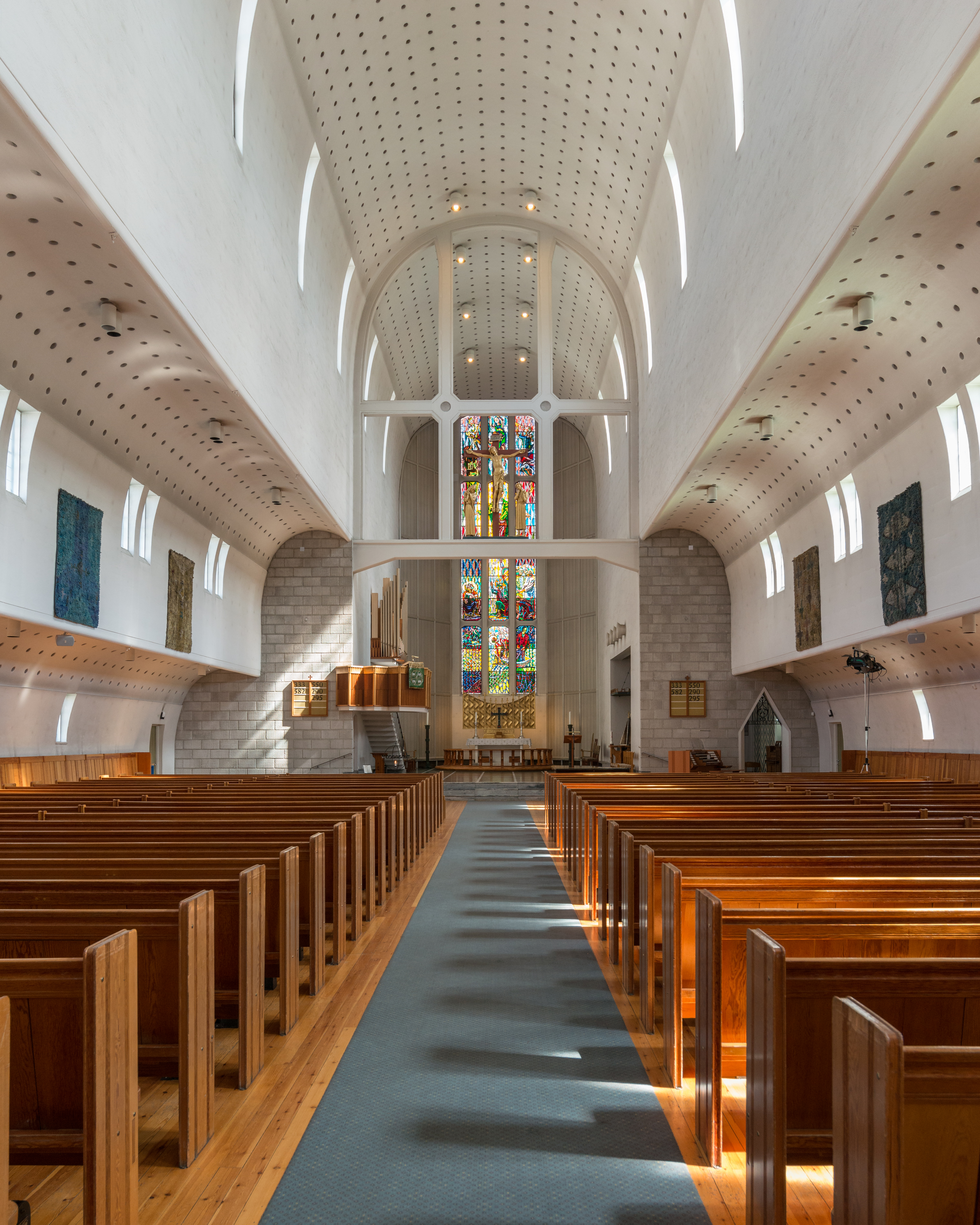 The nave of Bodø Cathedral